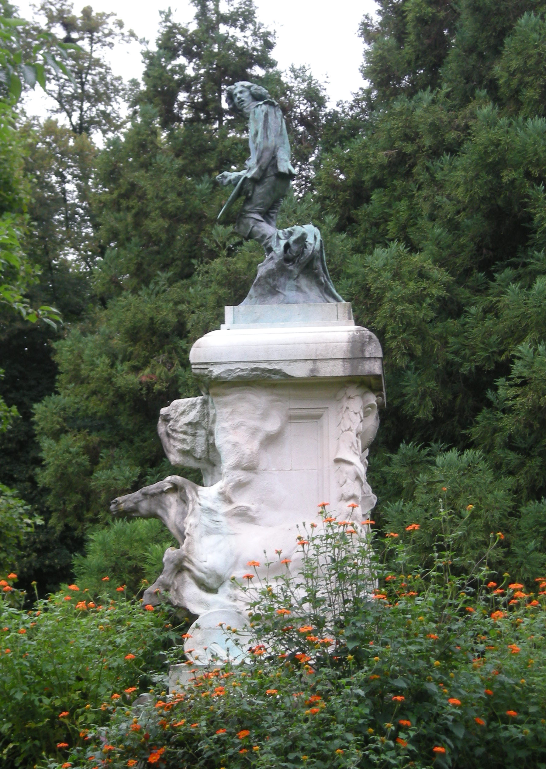 Auguste Rodin (French, 1840-1917): Monument to Claude Gellée, Parc de la Pépinière, Nancy, France.